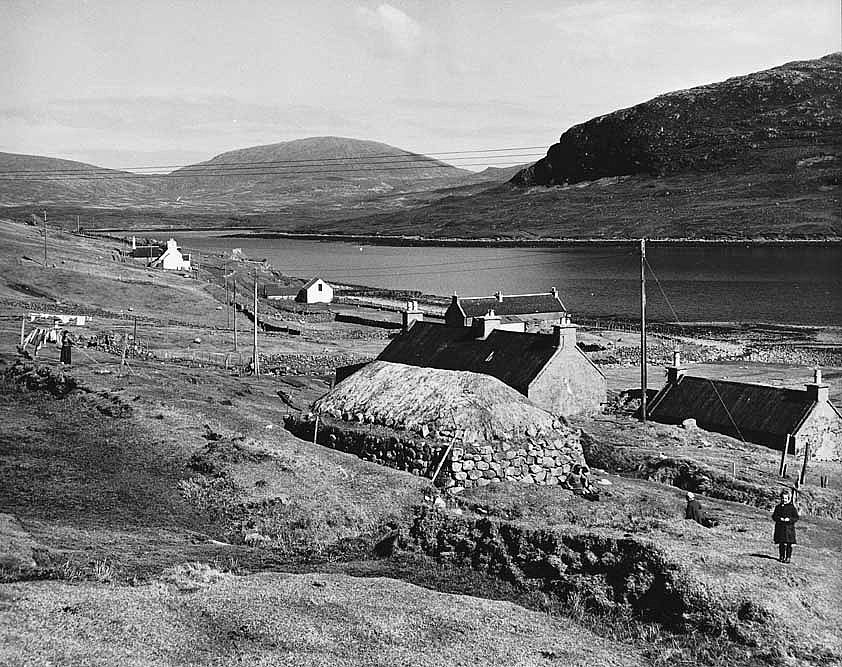 Ballallan, Isle of Lewis, a traditional crofting village where Harris Tweed is woven.